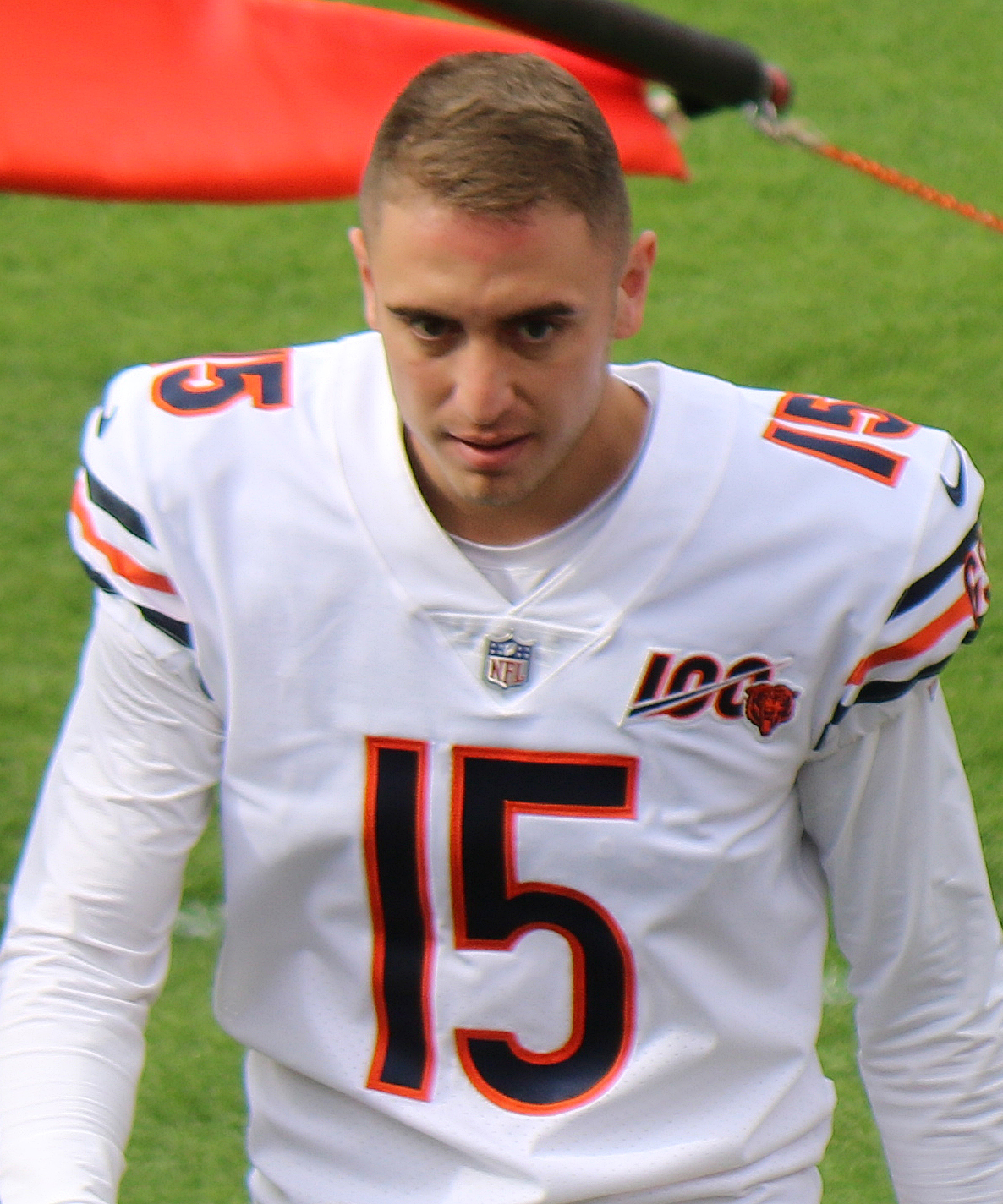 Eddy Piñeiro, a National Football League player.